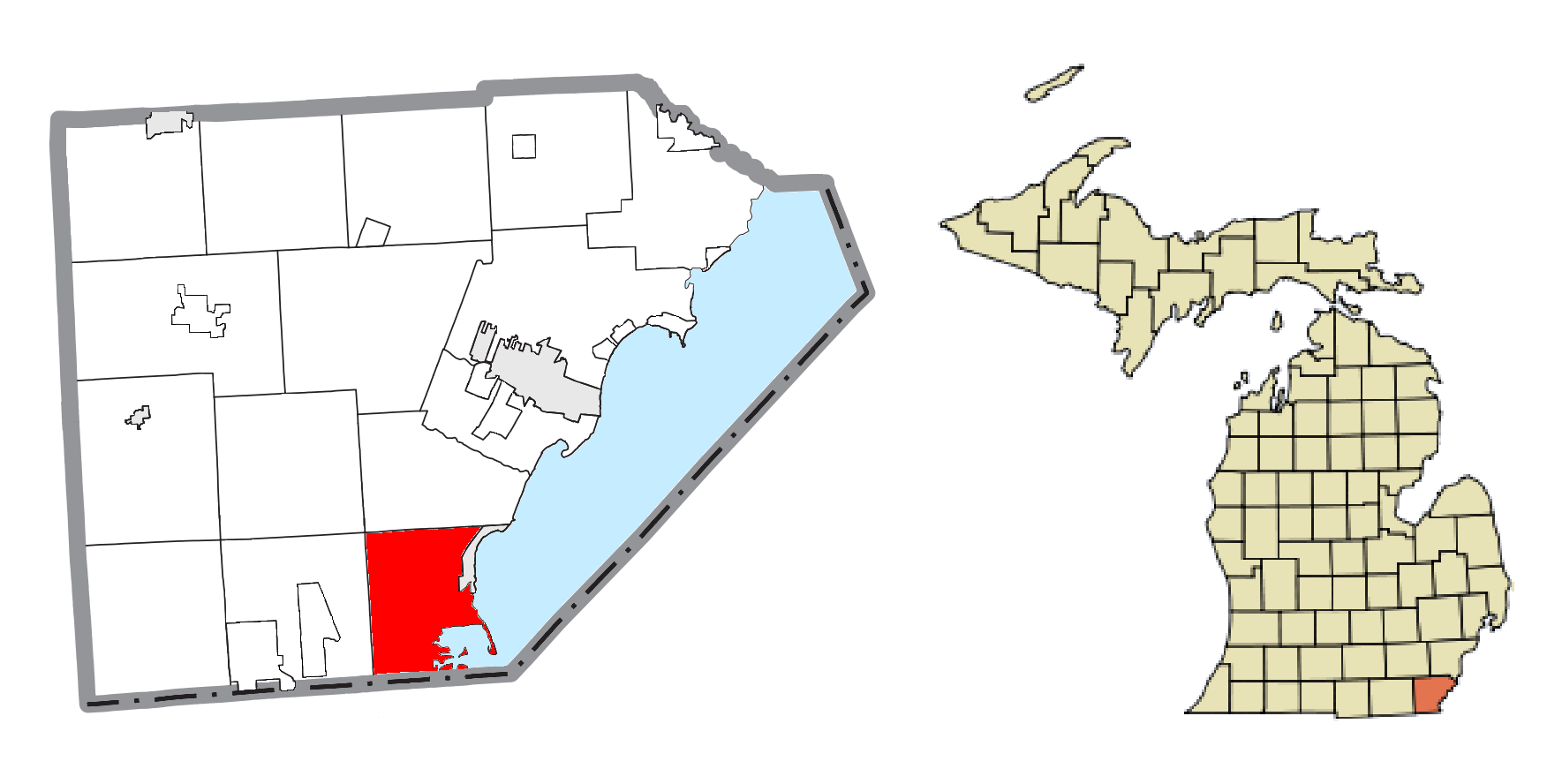 Erie Township, MI